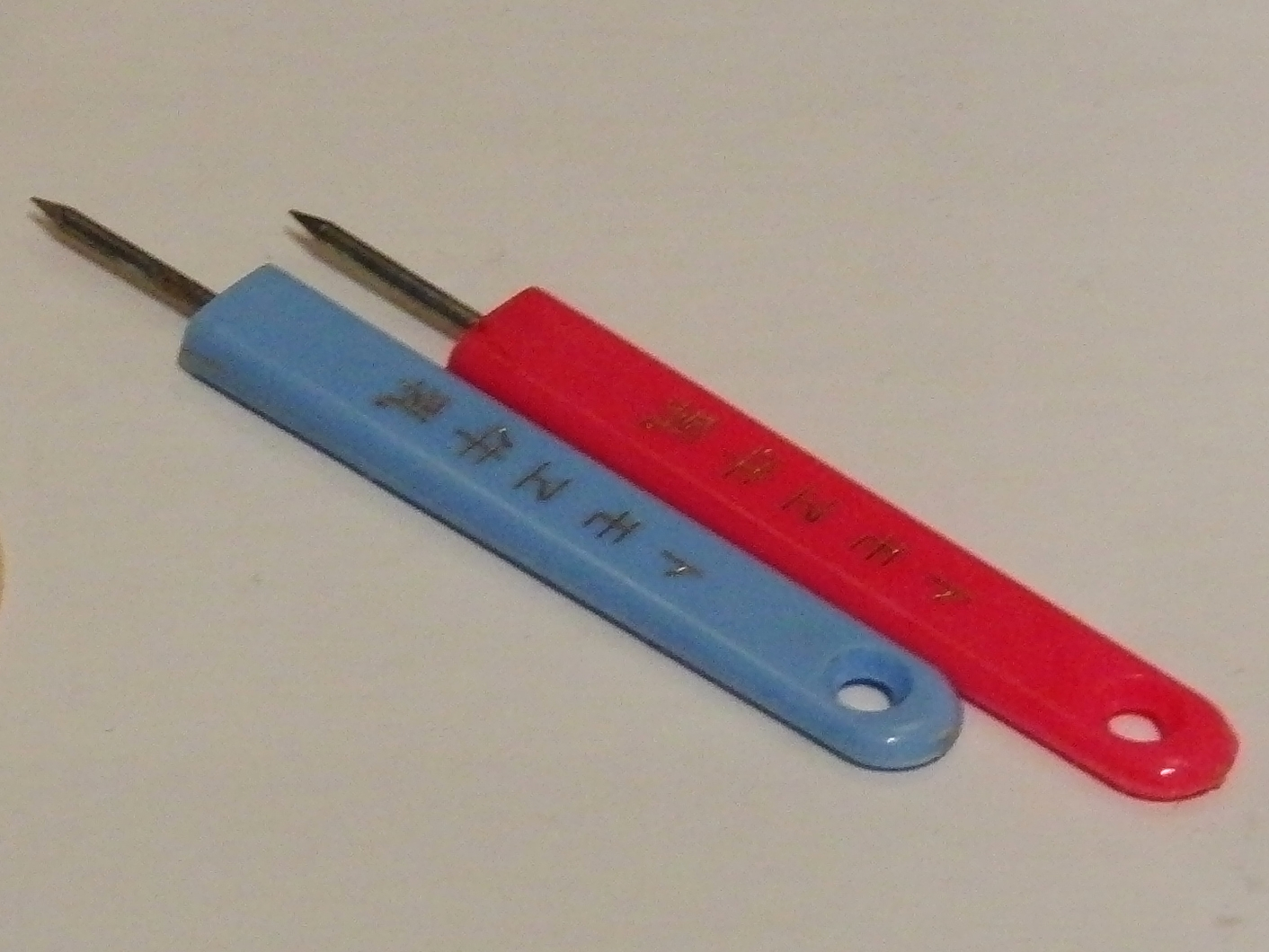 Milk bottle openers. Collection of Milk museum, Tomoe Dairy Processing, Japan.